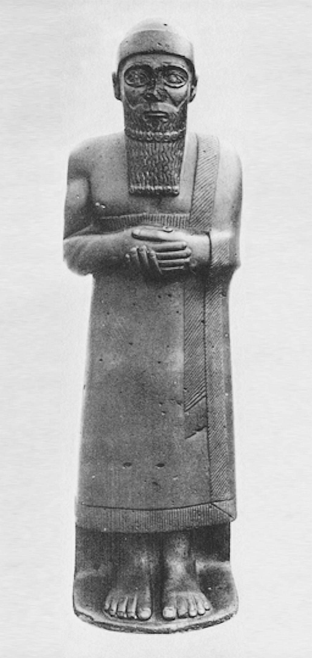 Ishtup-Ilum statue (front, wider)